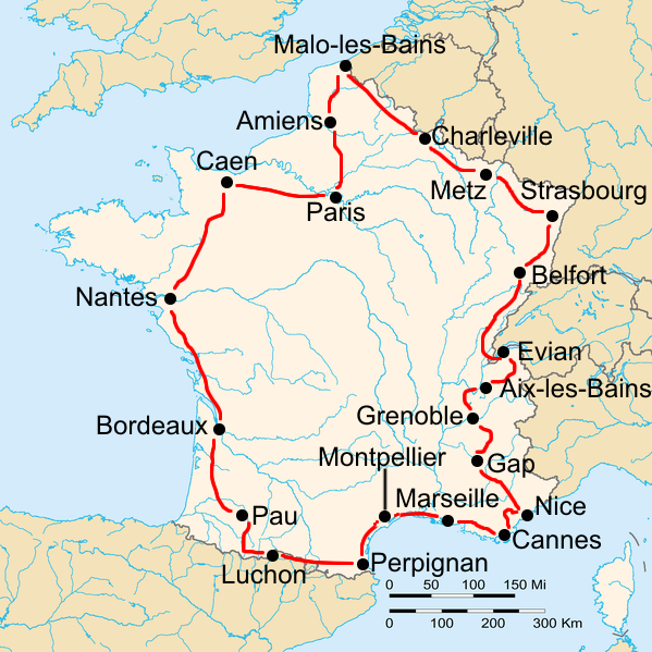 Route of the 1932 Tour de France, starting and finishing in Paris.